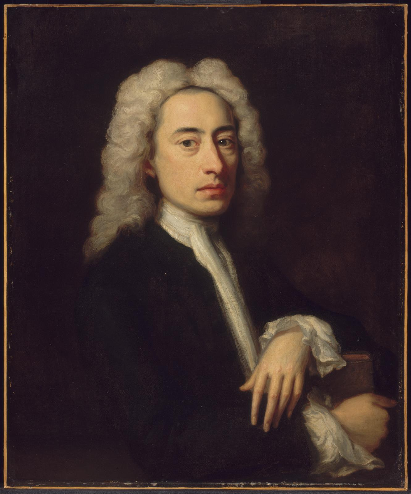 Portrait of Alexander Pope